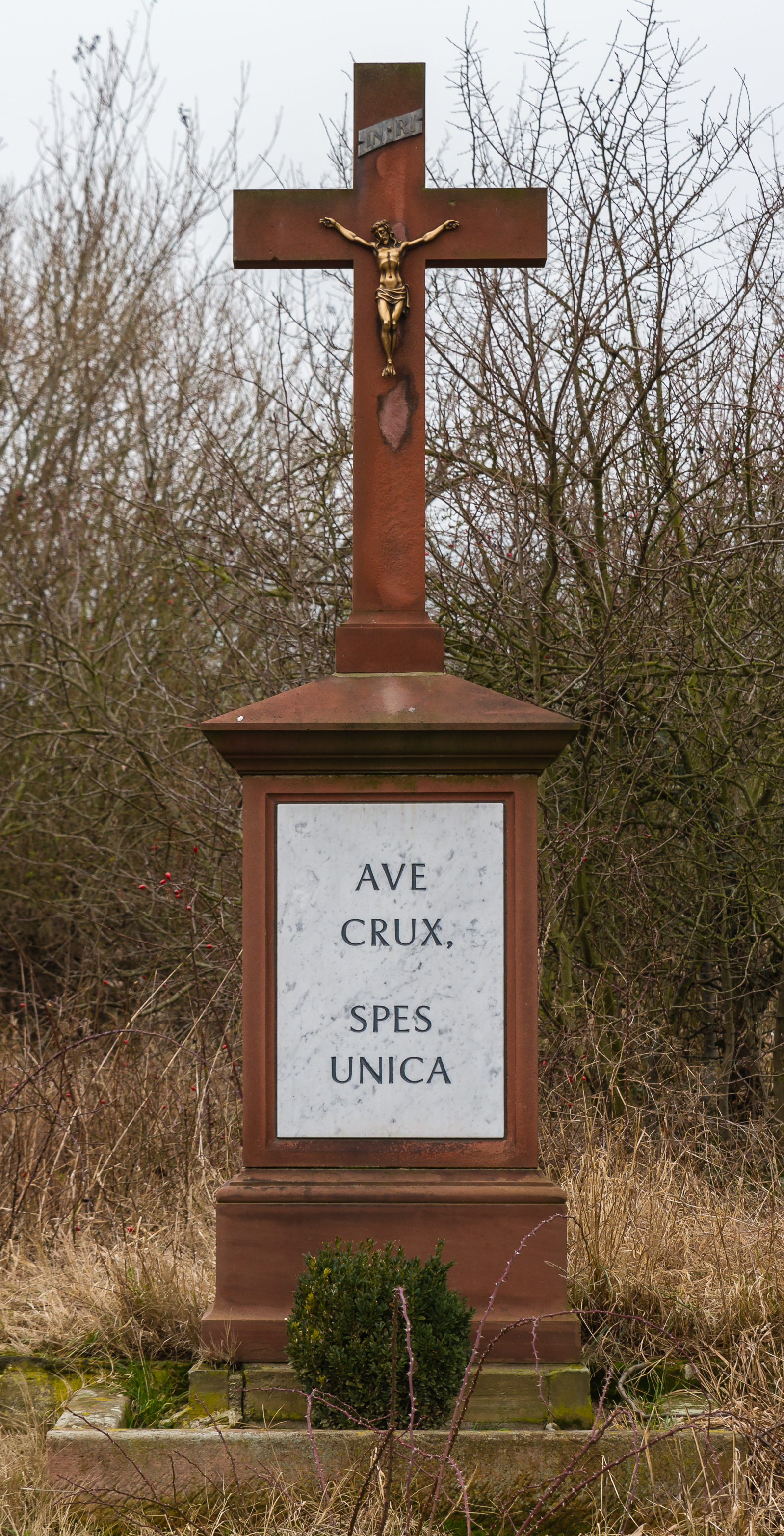 Designation: Wayside cross Location: Immediately at the northern end of the village west of the Weinstraße Parcel of land: In der Maushöhle Place: Deidesheim, District Bad Dürkheim, Rhineland-Palatinate Construction time: late 19th century Description: Red sandstone